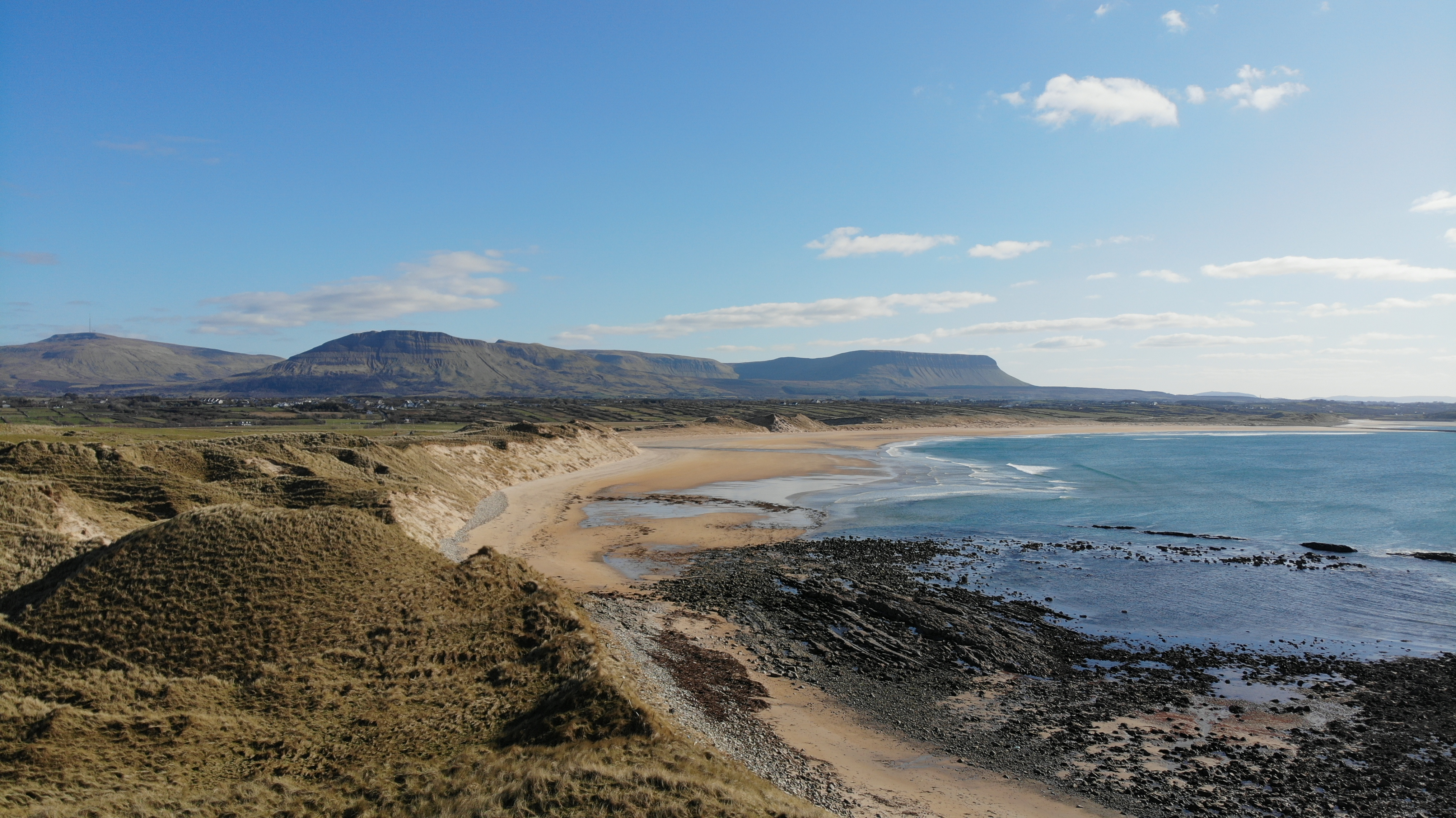 The Dartry Mountains photographed from Mullaghmore Head, March 2020